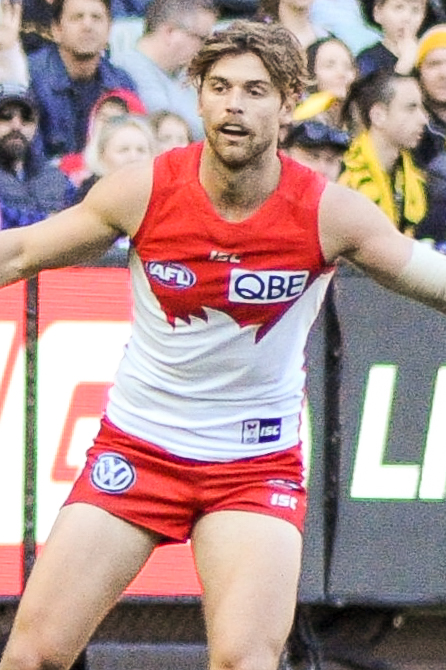 Dane Rampe during the AFL round thirteen match between Richmond and Sydney on 17 June 2017 at the Melbourne Cricket Ground in Melbourne, Victoria.